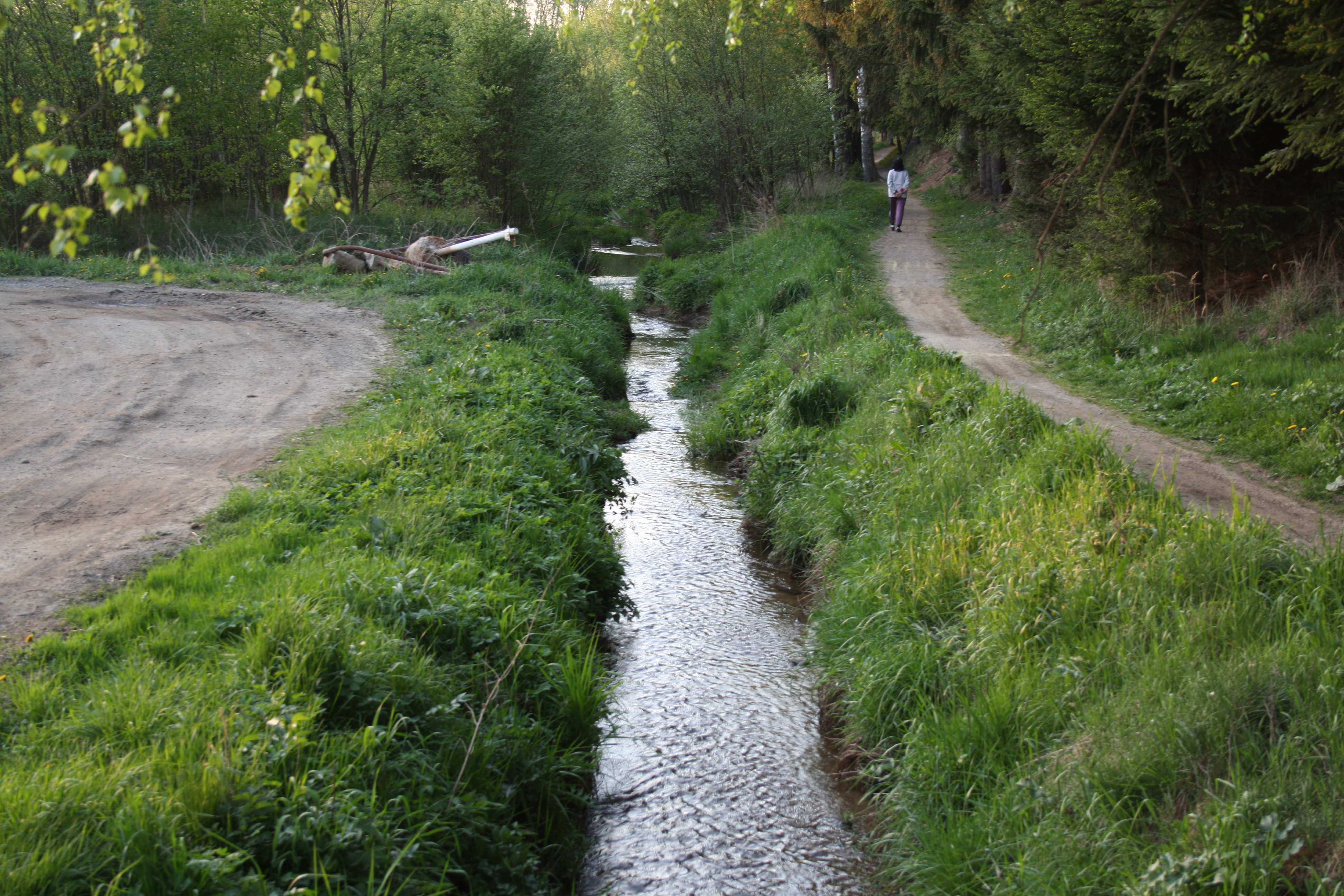 Jihlávka River in Stonařov, Czech Republic.